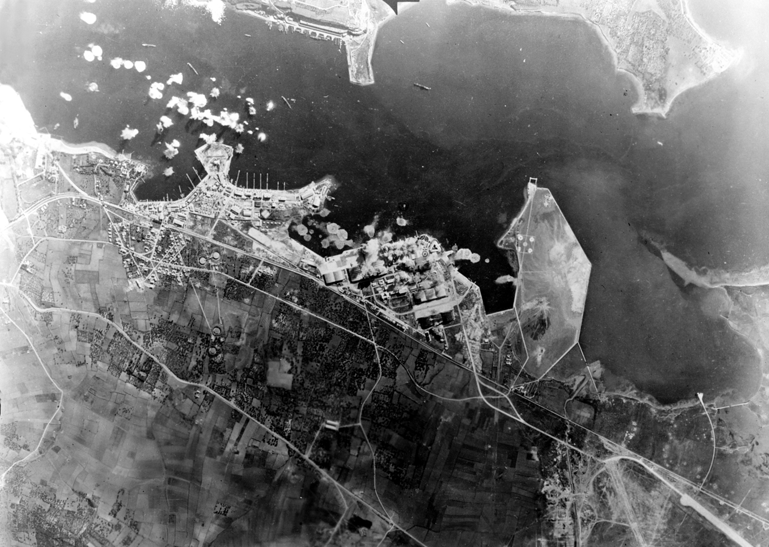 Aerial view of Bizerta (Binzart, Bizerte) in Tunisia, under attack by U.S. Army Air Force Boeing B-17 Flying Fortress bombers, circa January 1943. Note the bombs exploding among the warehouses and ships.